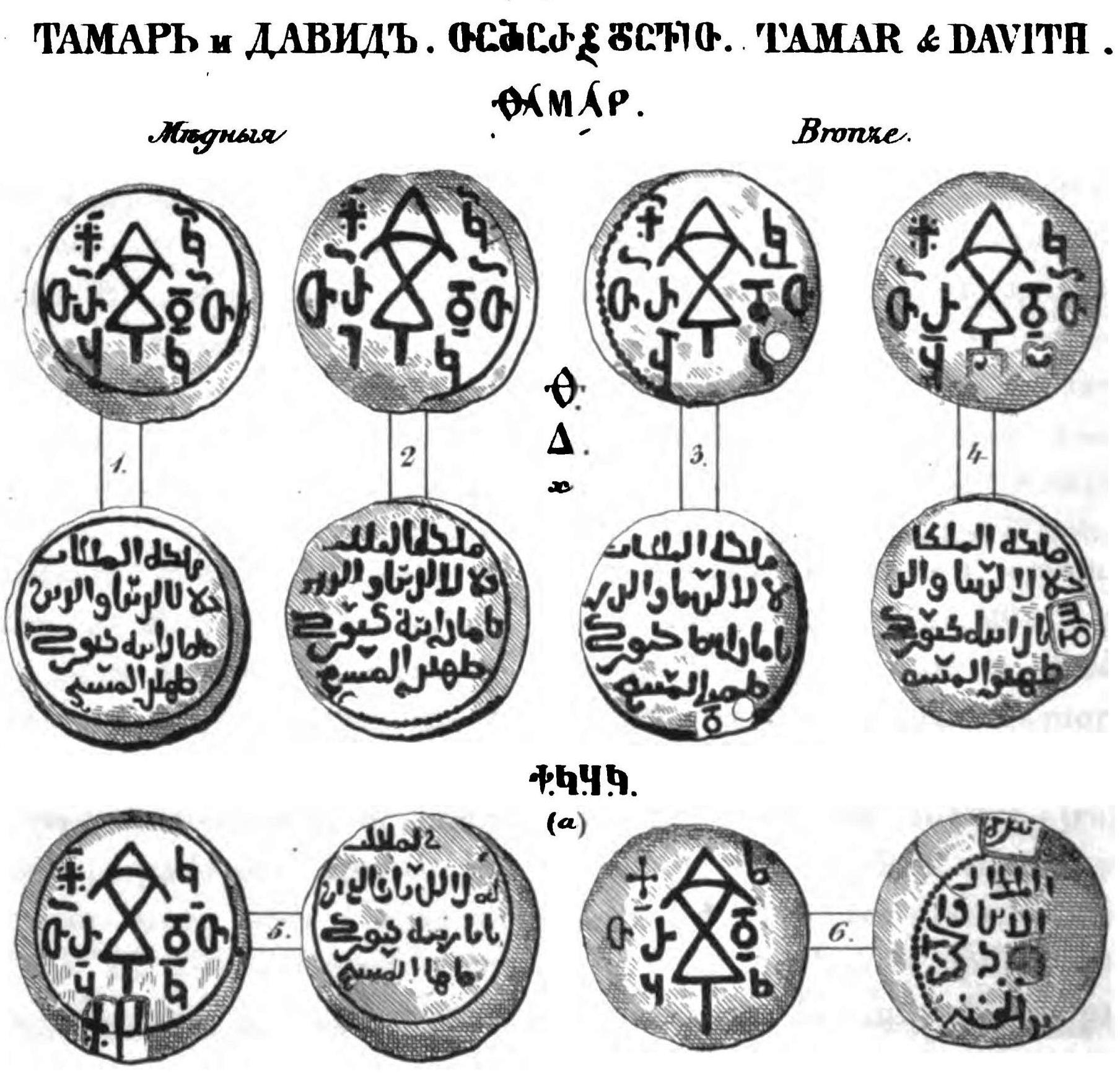 Coins in Georgia during Thamar and Davith